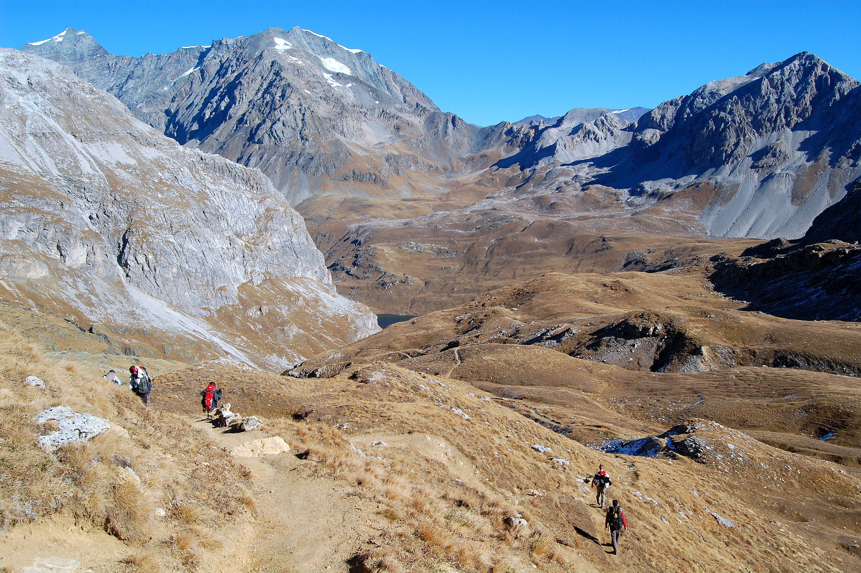 The Rouges and the Dome des Platières from the mountain pass of Plan Séry at the end of the fall, Vanoise National park, Champagny en Vanoise, France